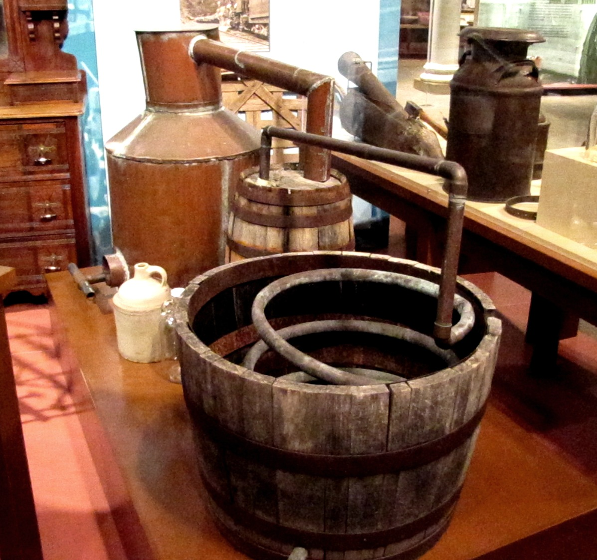 Moonshine still at the Center for East Tennessee History in Knoxville, Tennessee, USA.